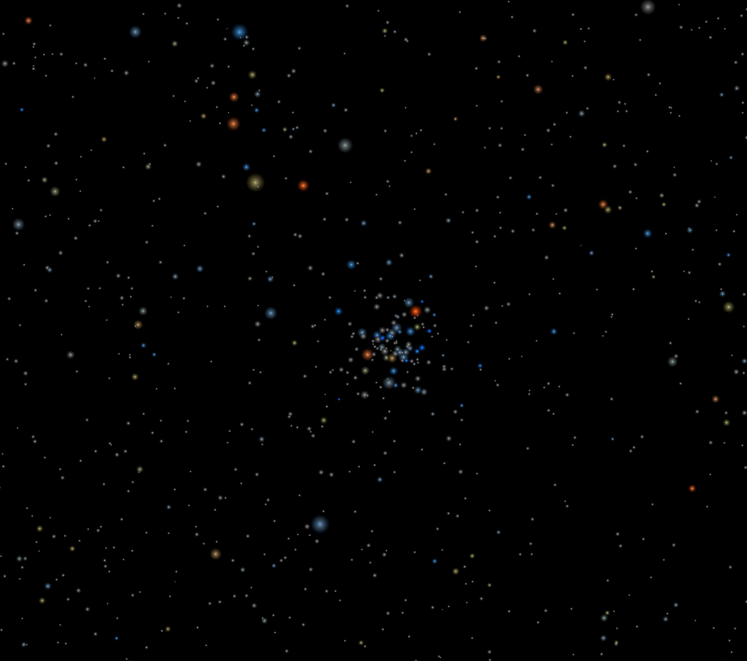 Open cluster NGC 3766